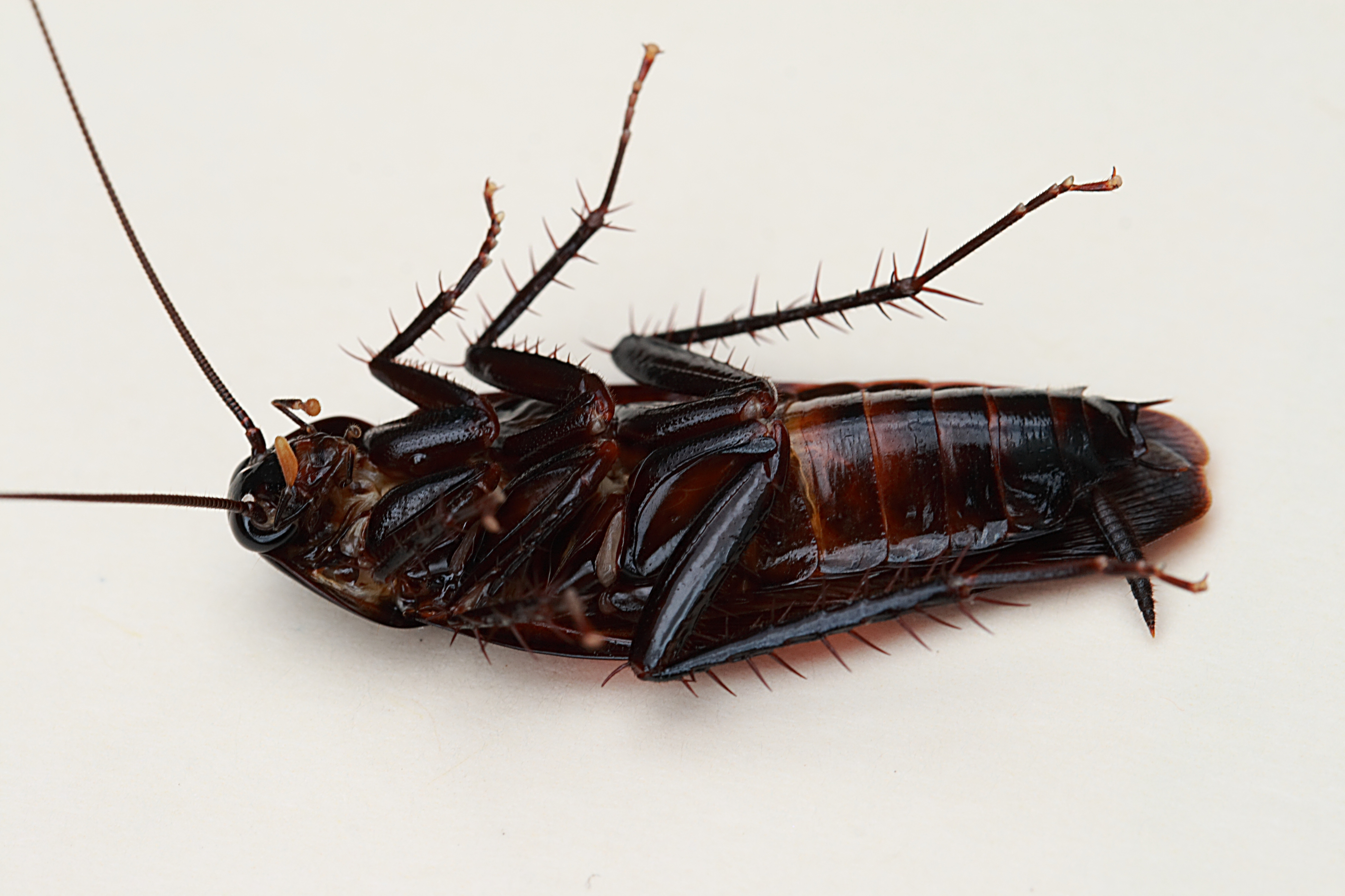 Smokybrown cockroach Periplaneta fuliginosa in suburban Sydney, NSW, Australia.